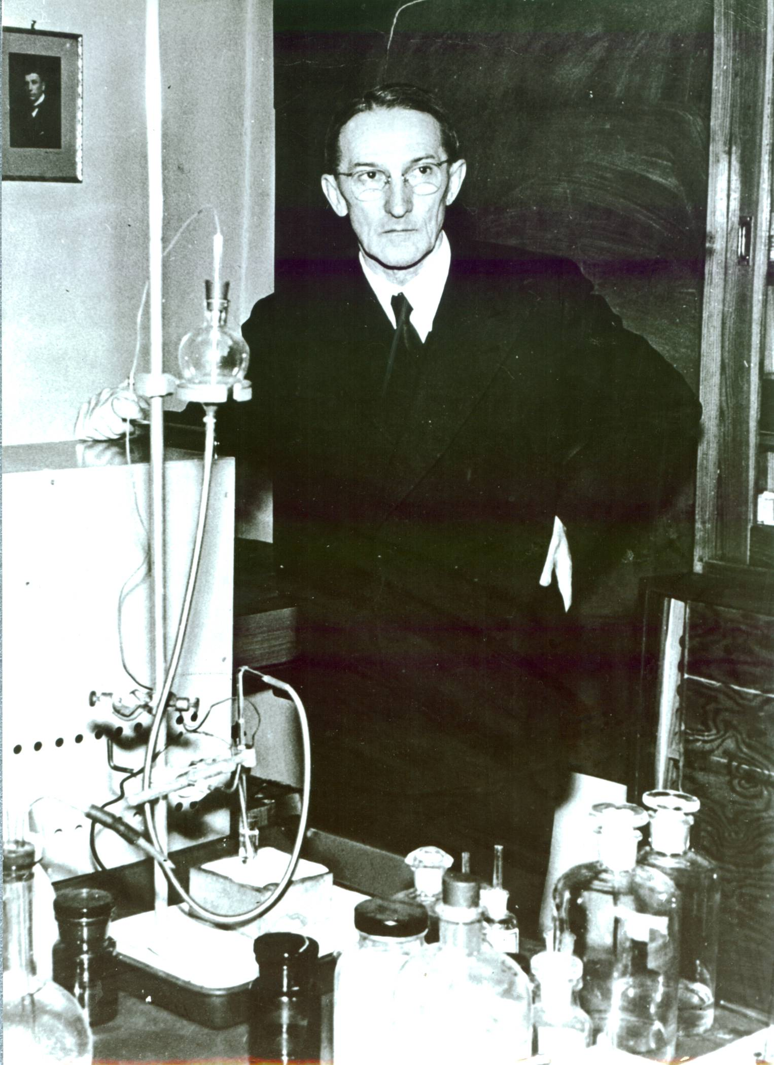 Jaroslav Heyrovský